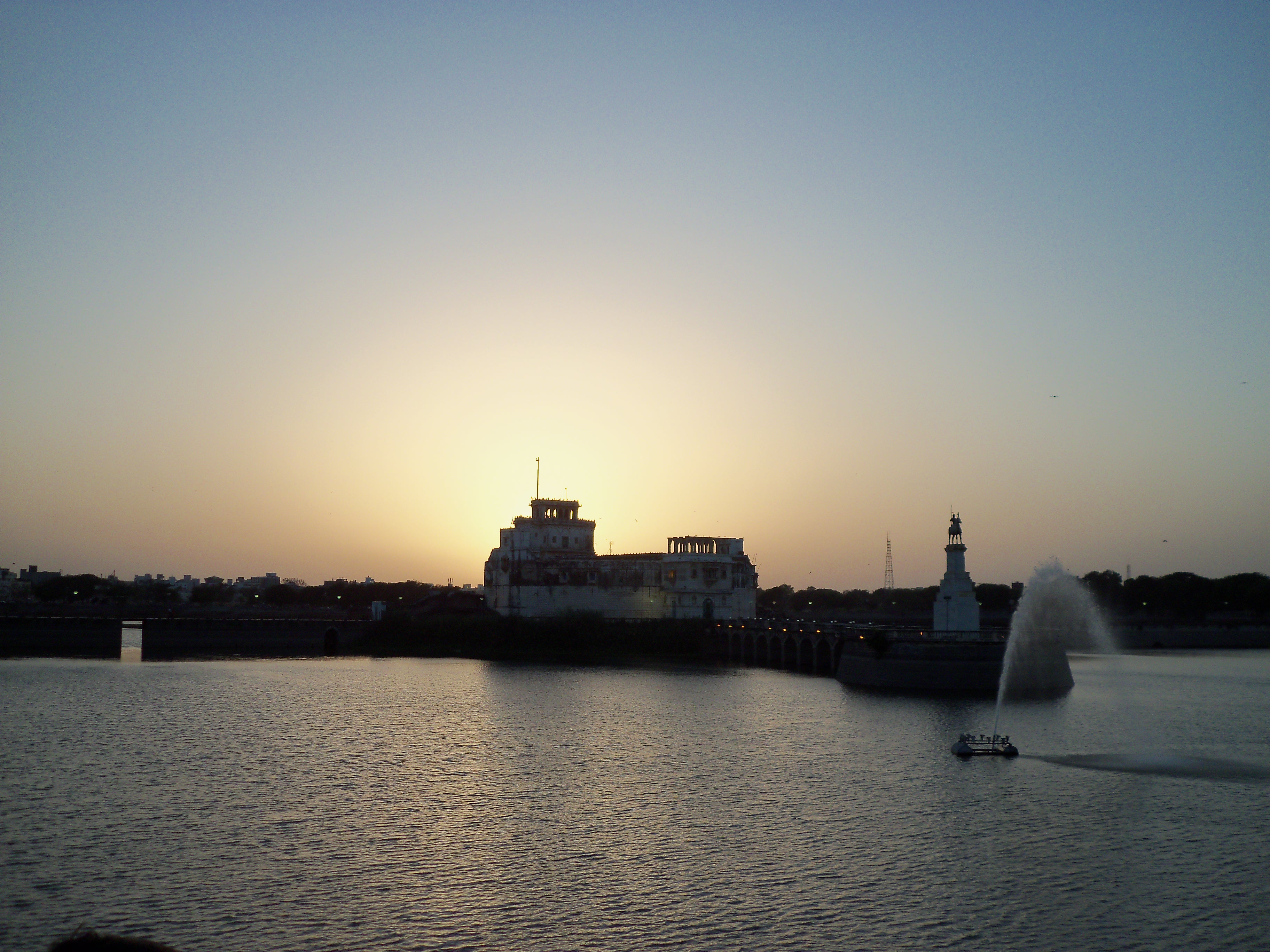 Loacted in Jamnagr city Gujarat.